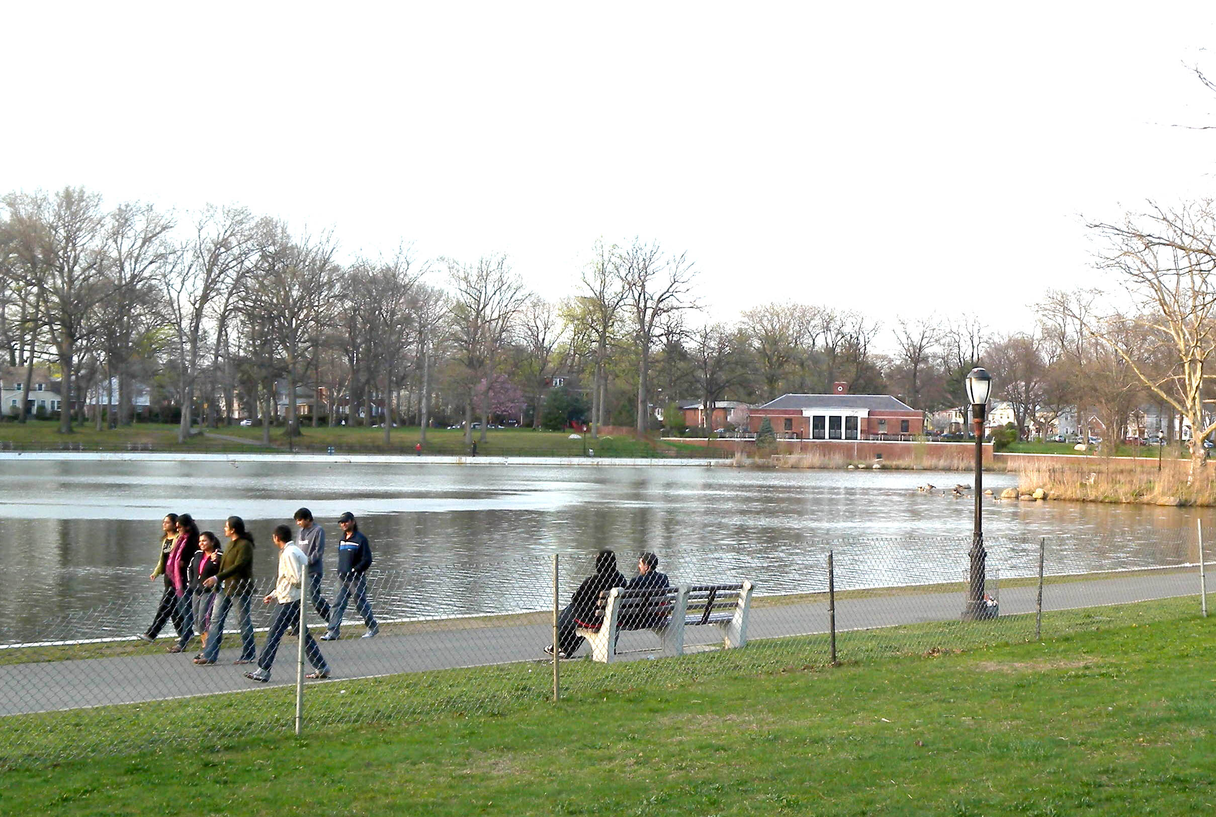 Looking northeast across Kissena Lake Park as the Sun sets on a mostly cloudy day.